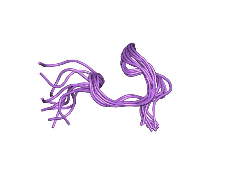 Cartoon representation of the molecular structure of protein registered with 1uyb code.